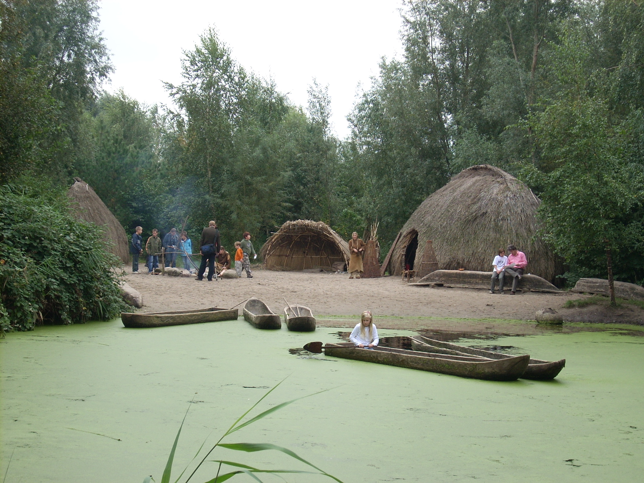 Archeon, showing a replica of a house 8000 years BC.